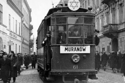 A tram marked with the Star of Dawid in the Warsaw Ghetto